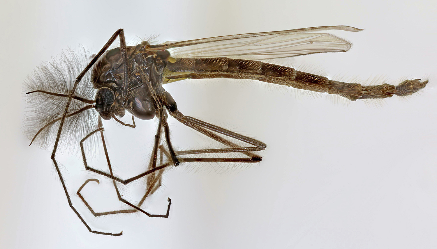 Chironomus anthracinus,Trawscoed, North Wales, April 2015 2